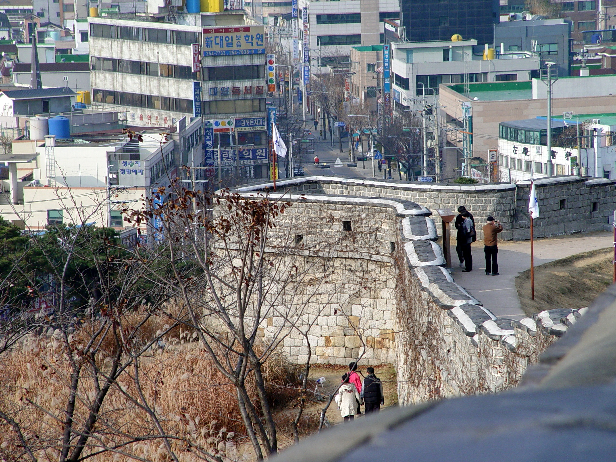 The south side of Seoilchi, Hwaseong Fortress, Suwon, South Korea